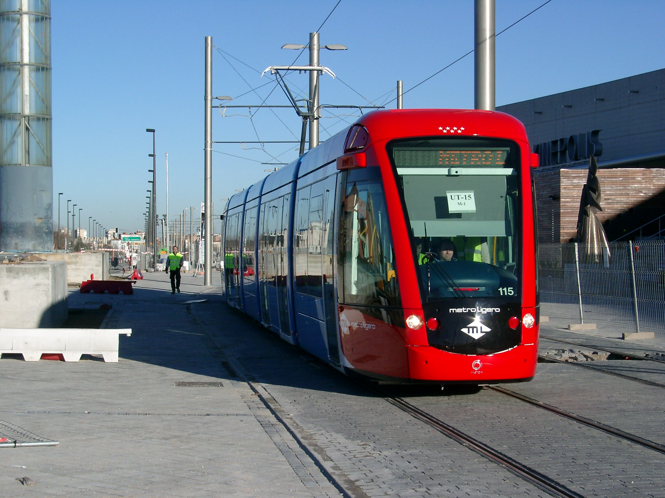 Madrid light rail vehicle during test ride, February 2007